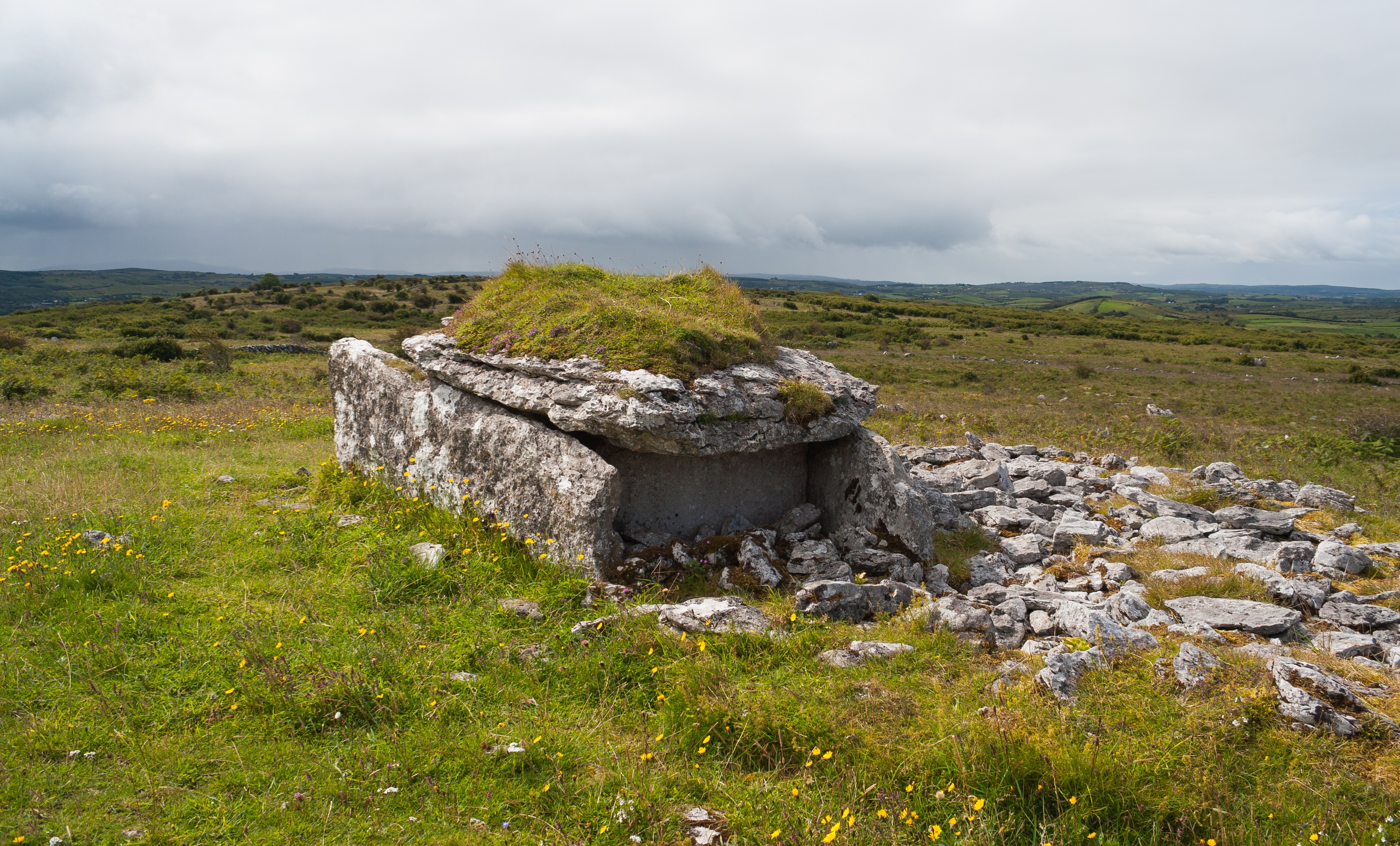 North-east view of Parknabinnia Wedge Tomb Cl. 67.